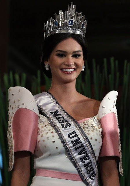 President Benigno S. Aquino III receives Miss Universe 2015 Pia Wurtzbach during her courtesy call on Tuesday (January 26) in Malacanang. Miss Wurtzbach was joined by her mother, along with Miss Universe Organization president Paula Shugart, and Binibining Pilipinas Charities chairperson Stella Araneta.